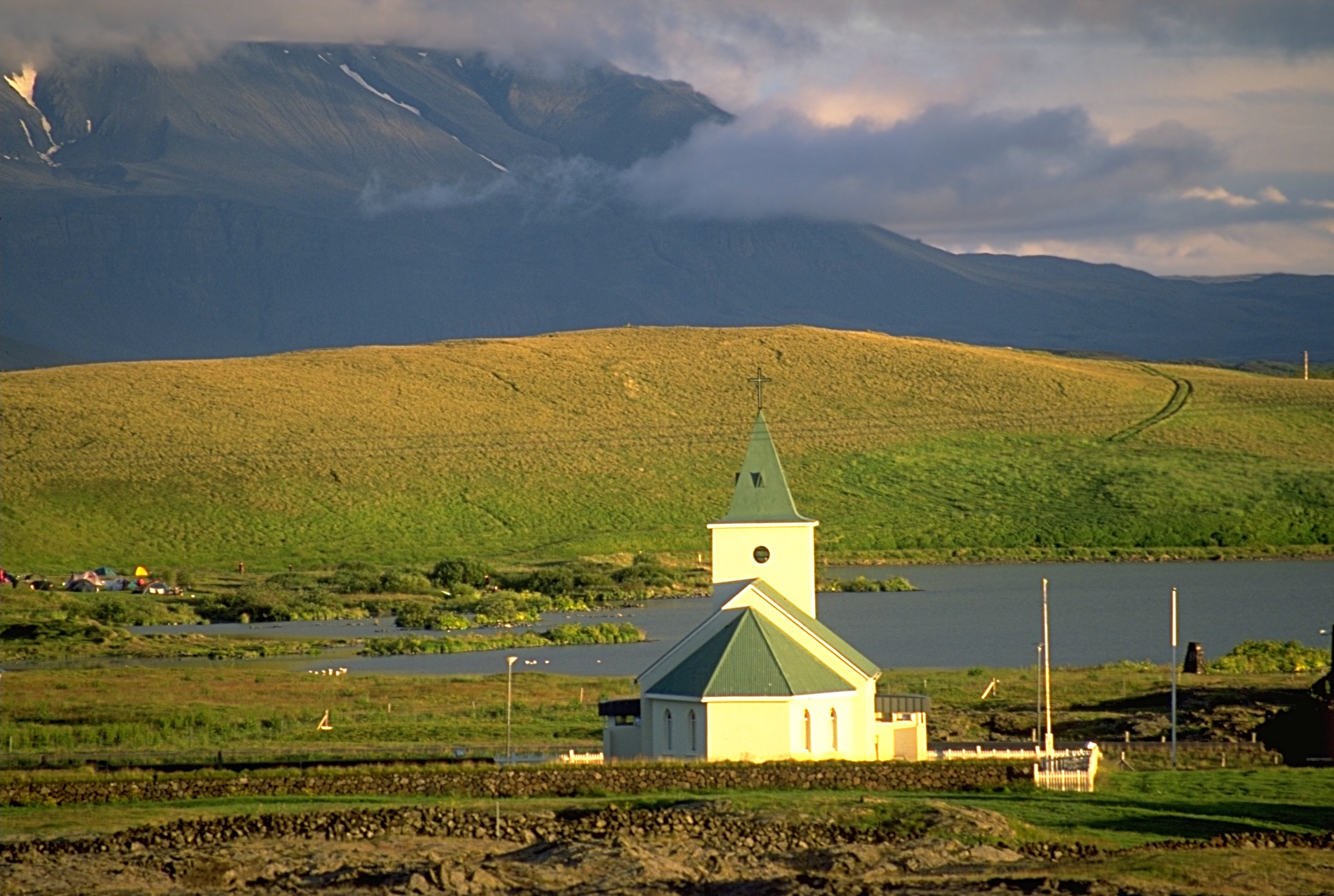 Reykjahlíðskirkja (Church of Reykjahlíð), legend has it that this church along with a set of others was saved by the priests prayers from the onflowing lavamass heading towards it, it supposedly stopped right in front of the surrounding wall. Photo was taken using the following technique: Film: Fuji Velvia Lens: 4/70-210 Filter: Body: Minolta Dynax 7 Support: Gitzo Monotrek Image with Information in English Bild mit Informationen auf Deutsch